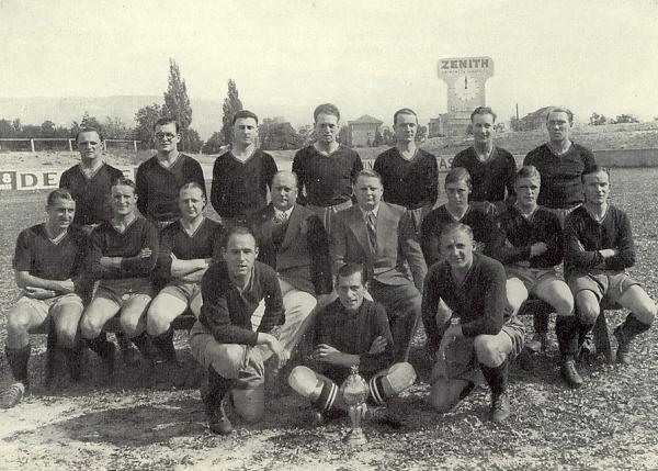 Swiss champion 1933/34 Servette FC Back: Tax, Kielholz, Losio, L`Hôte, Passello, Borloz, Aeby Middle: Lörtscher, Loichot, Laube, Herren (Präsident), Kellermüller (Manager), Belli, Guinchard, Oswald Front: Rappan, Séchehaye, Marad